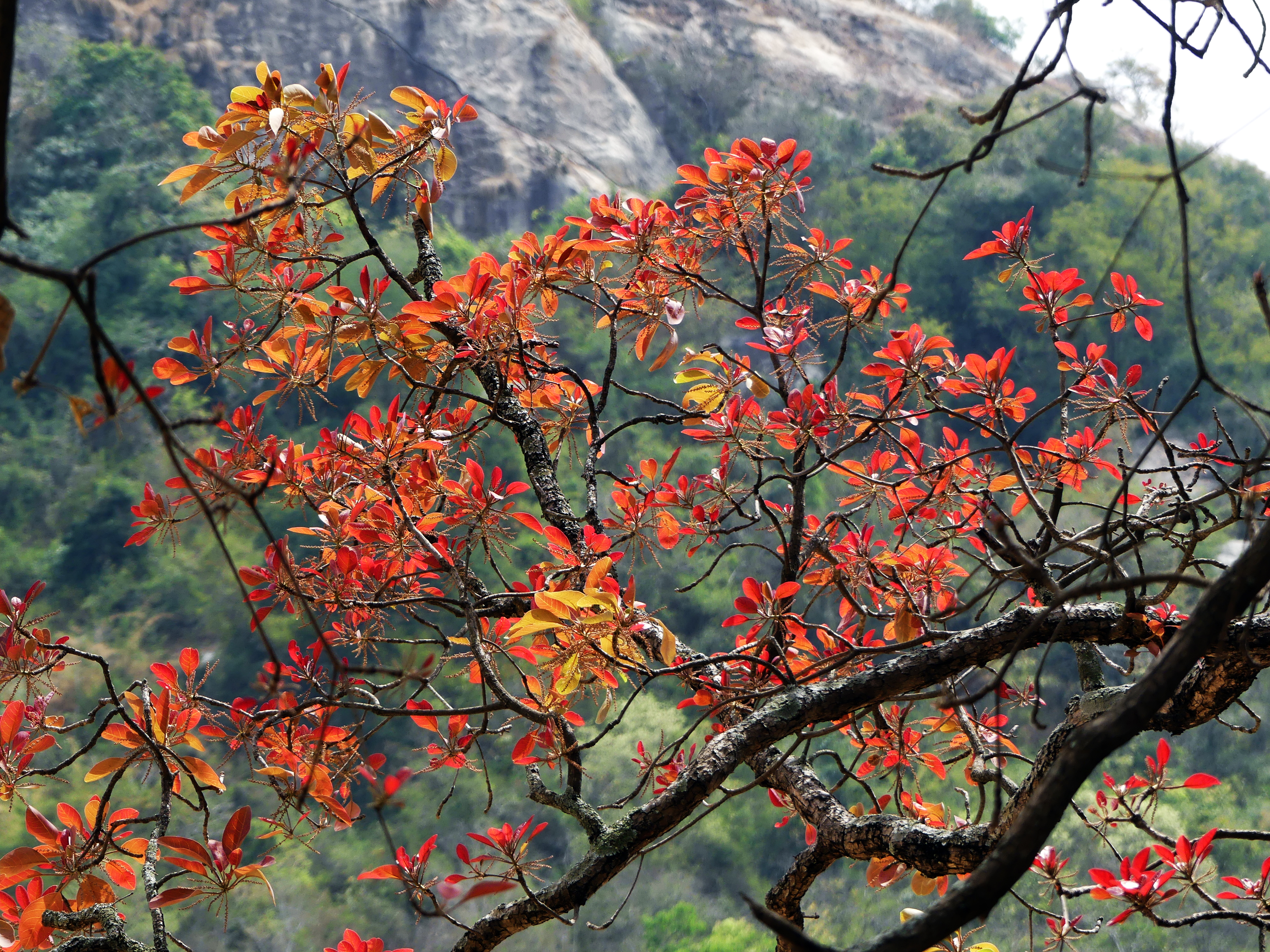 Terminalia belerica sprouting young leaves in Bannerghatta NP